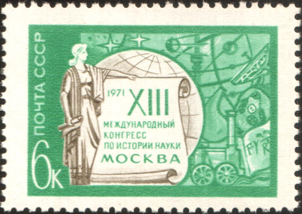 USSR stampː Symbols of Science and History and Commemorative Scroll. Seriesː 13th International Congress of History of Science in Moscow (1971.08.18-24)